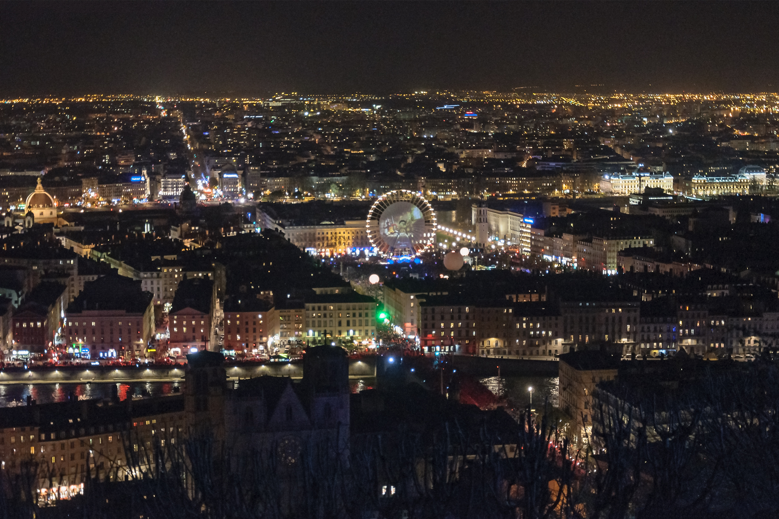 Lyon, Rhône, France, during the 2013 Festival of Lights, seen from Fourvière hill.